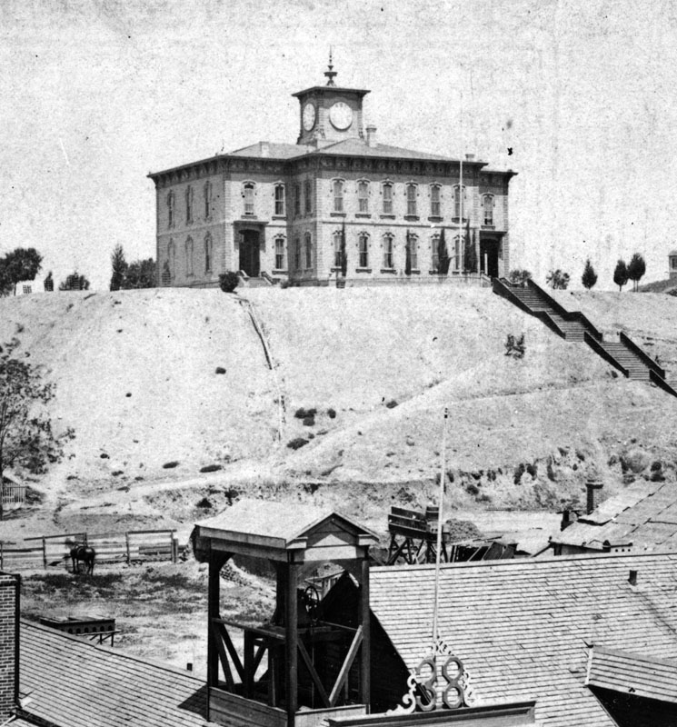 Los Angeles High School original building and location, soon after opening in 1873. Construction began on July 19, 1872. It was located at the site of the Los Angeles County Court House at Temple and Broadway, approximately.